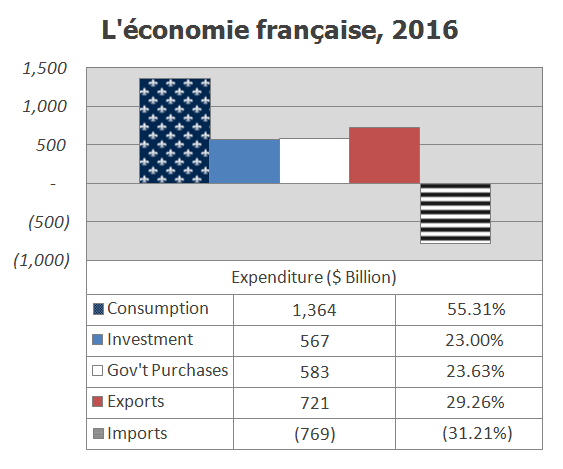 Composition of the French economy in 2016 by expenditure type. Data from